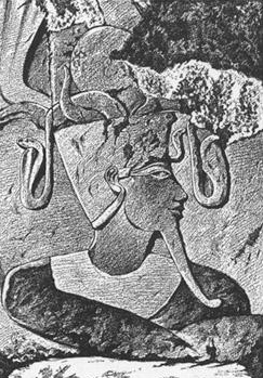 Bas relief of the Egyptian god Amun.